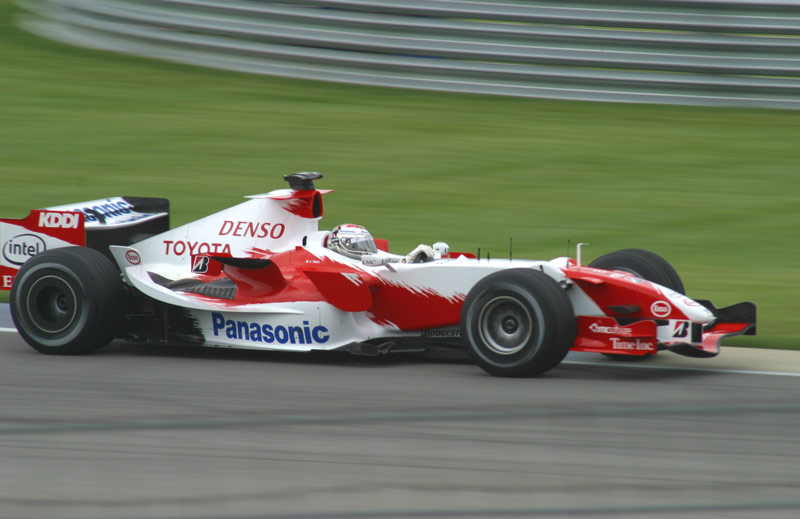 Jarno Trulli driving for Toyota F1 at the 2006 United States Grand Prix.